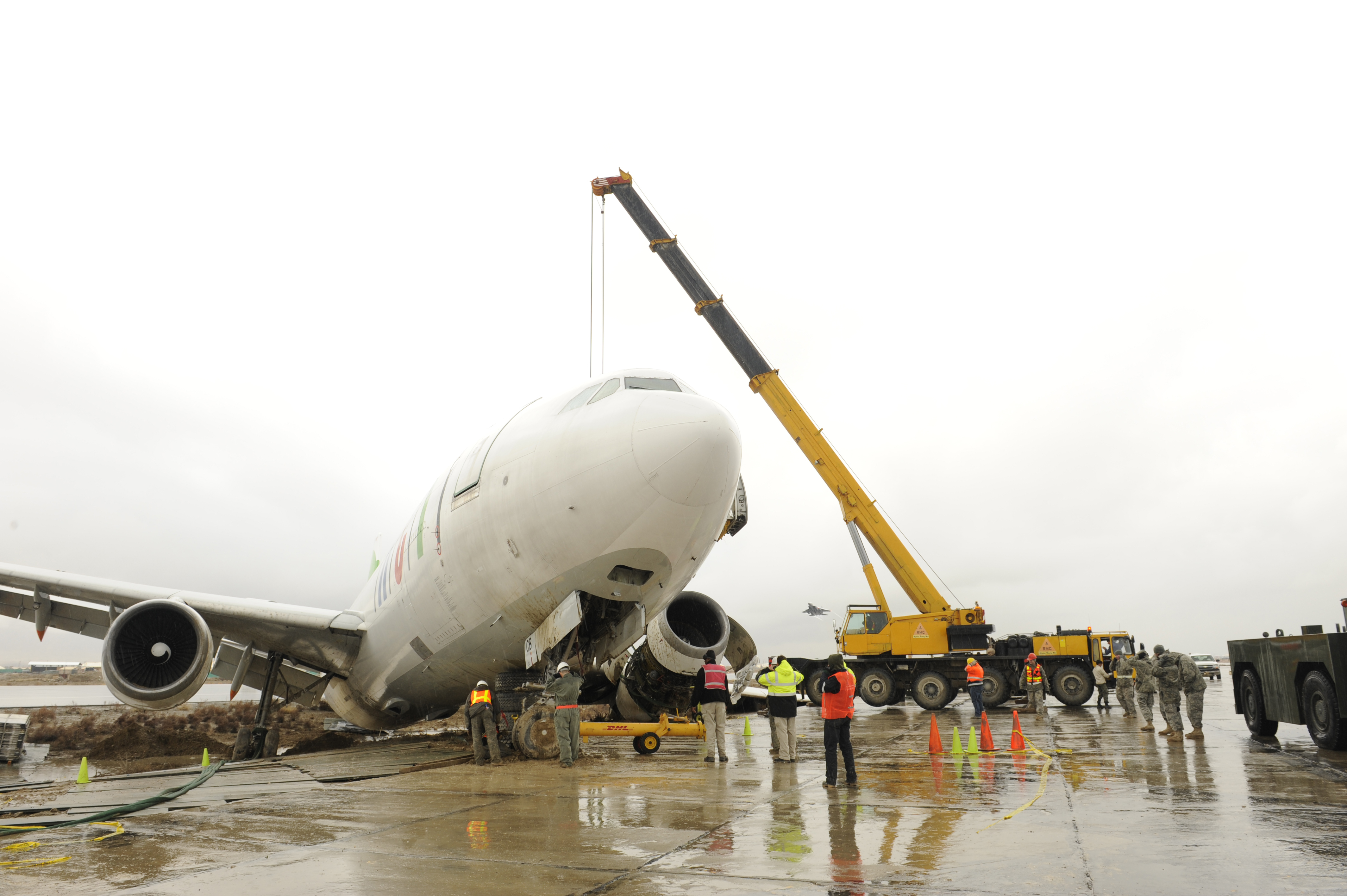 U.S. Air Force Airmen and contractors prepare to move an Airbus A300 after its crew preformed an emergency landing at Bagram Airfield, Afghanistan, two days prior.